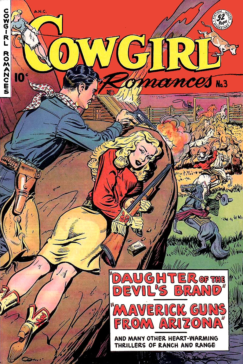 Cover scan of a public domain comic book: Cowgirl Romances #3, published by Fiction House Text: Cowgirl Romances No. 3 Fiction House Magazines - 52 pages 10¢ "Daughter of the Devil's Brand" — "Maverick Guns from Arizona" — and many other heart-warming thrillers of ranch and range A.N.C.